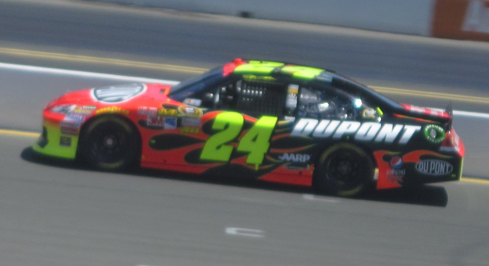 Jeff Gordon's No. 24 Dupont Chevrolet at Infineon Raceway in 2011